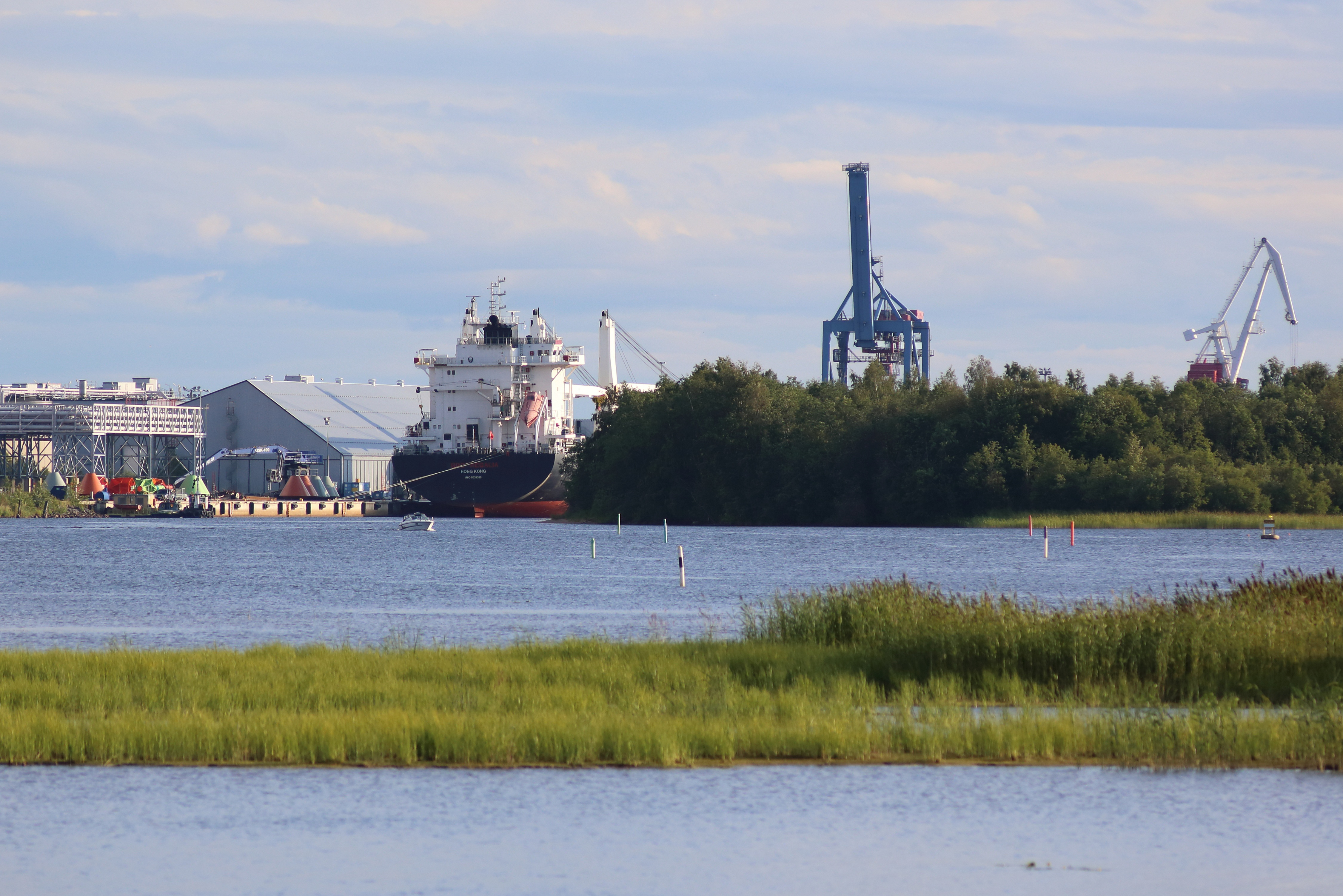 BBC Regalia at berth in the Nuottasaari harbour in Oulu.